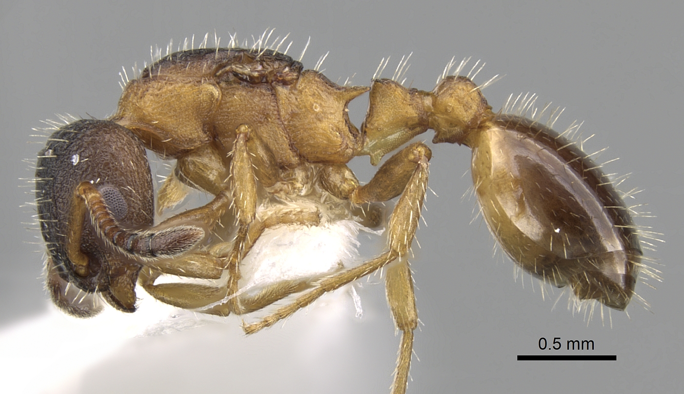 Leptothorax goesswaldi is a species of ants belonging to the subfamily Myrmicinae